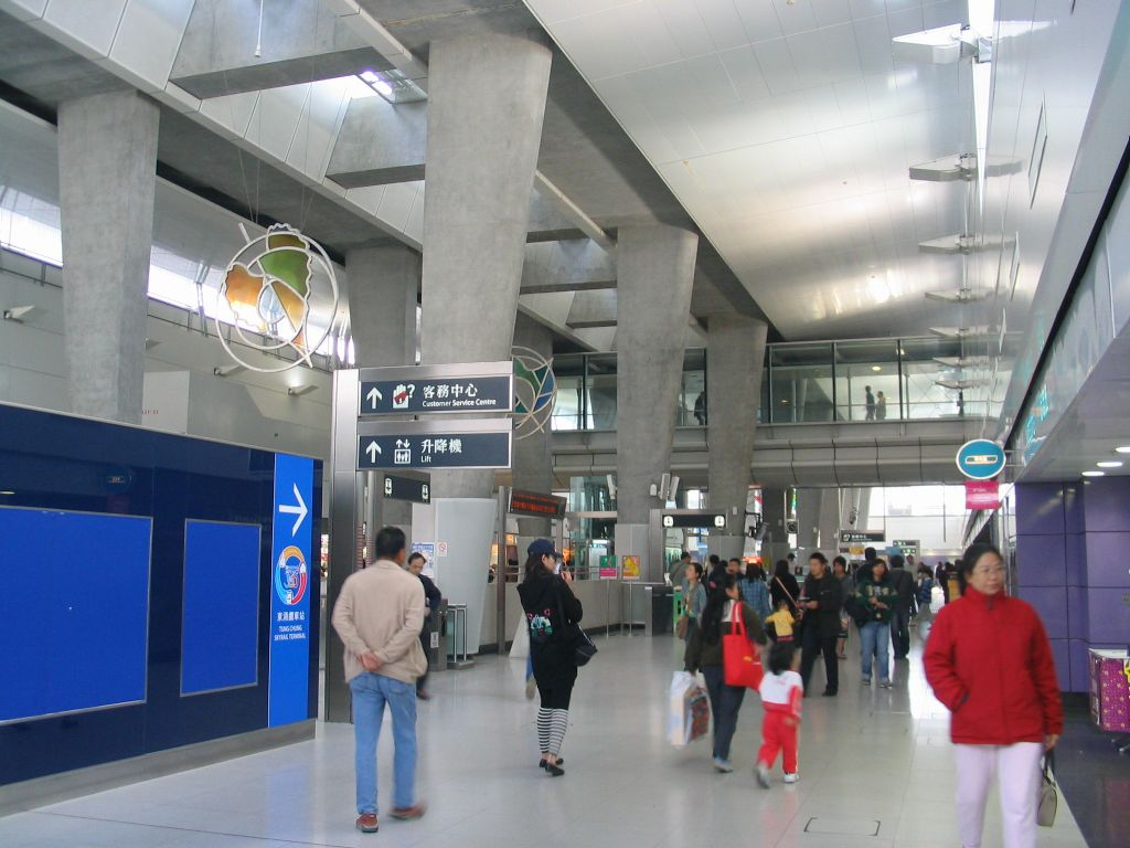 東涌站-東涌線大堂 Tung Chung Line Concourse of Tung Chung Station